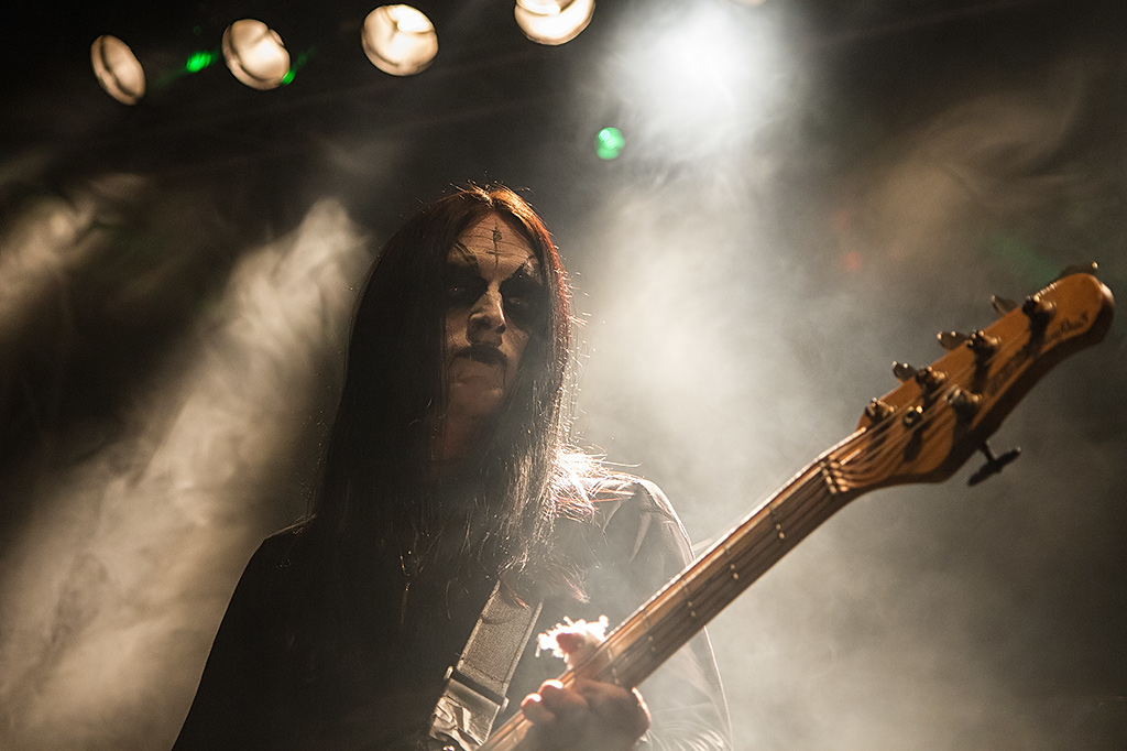 God Seed - 7.12.2012 - Music Hall, Geiselwind